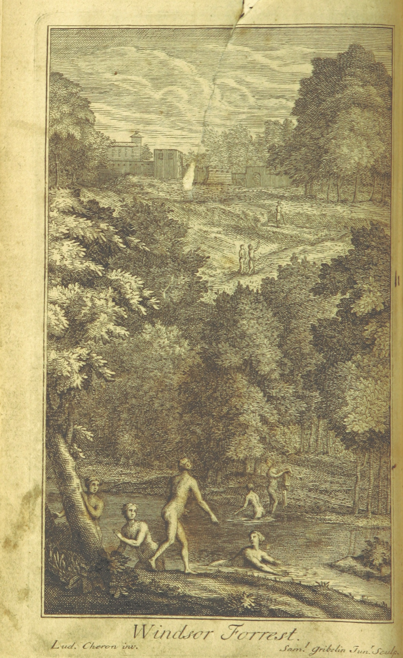 Page 4 of Windsor Forest. To the Right Honourable George Lord Lansdown.